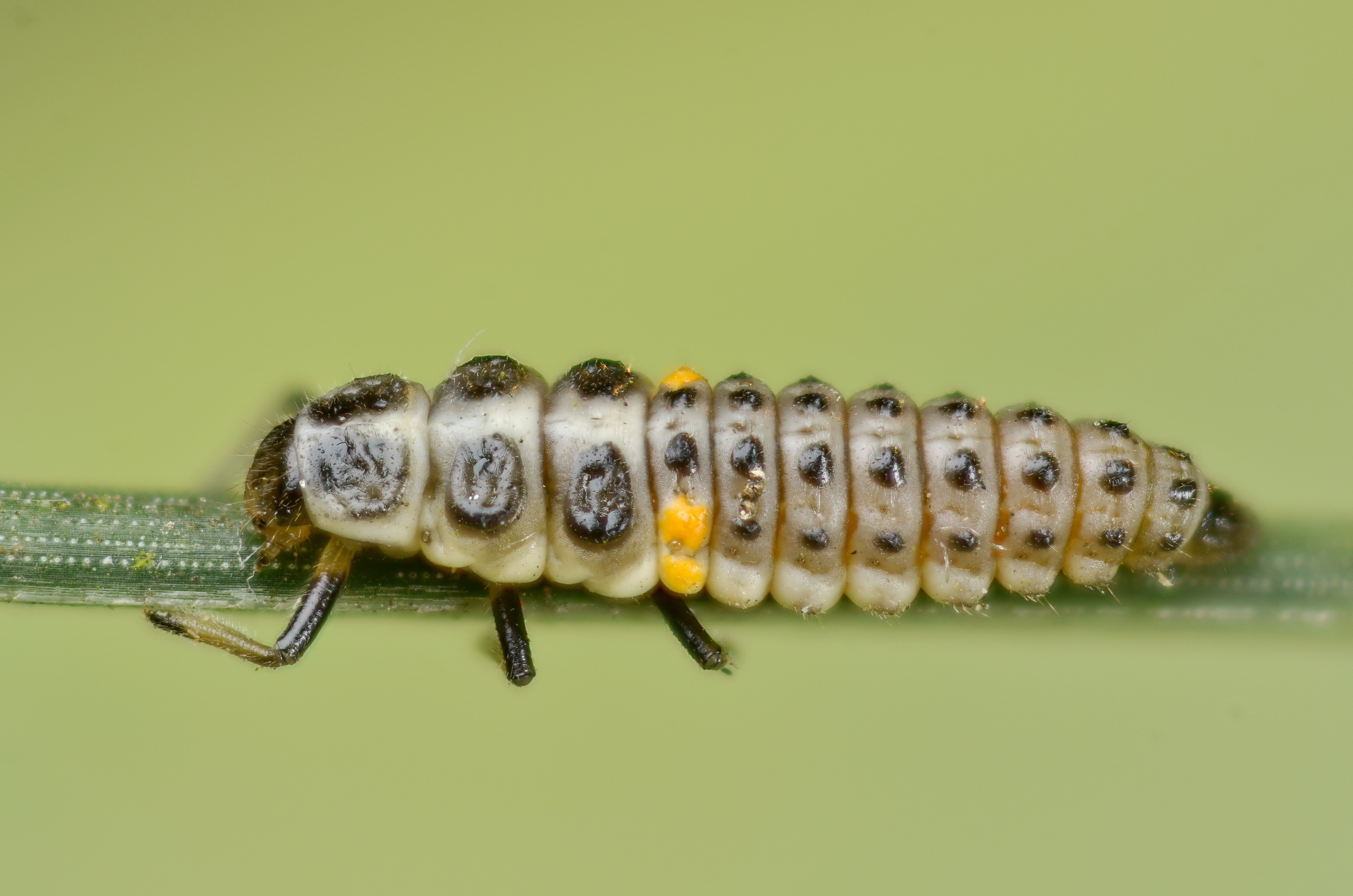 Larvae of the ladybird Myrrha octodecimguttata. Jambes, Belgium. Focus stack of 12 handheld pictures Micro-Nikkor 60 mm at f/10 on extension tubes